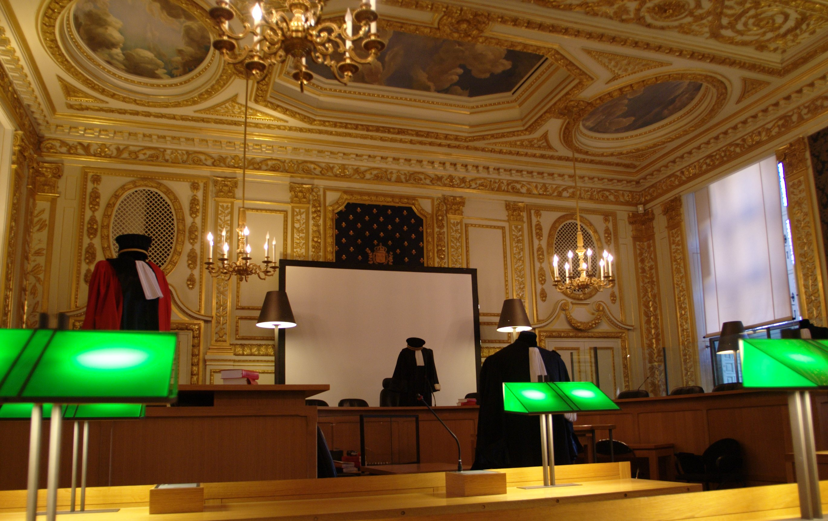 Cour d'assises’room in the palace of Parlement of Brittany in Rennes.